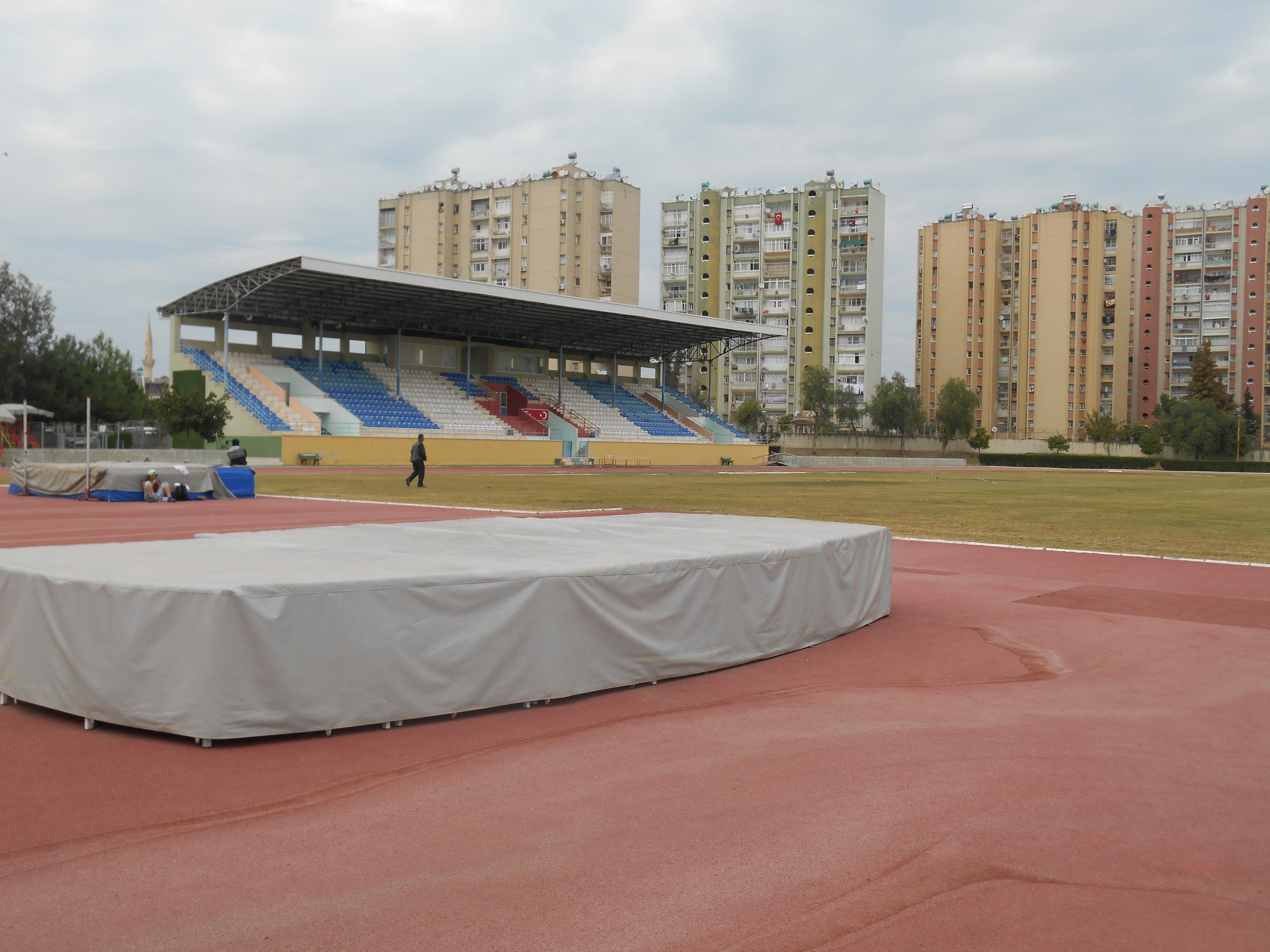 The field